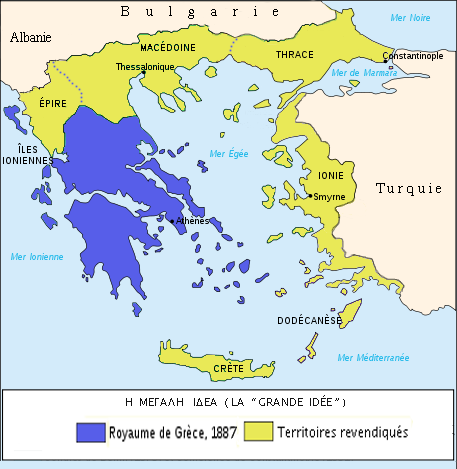 The hellenic "Great Idea" since a map of 1919